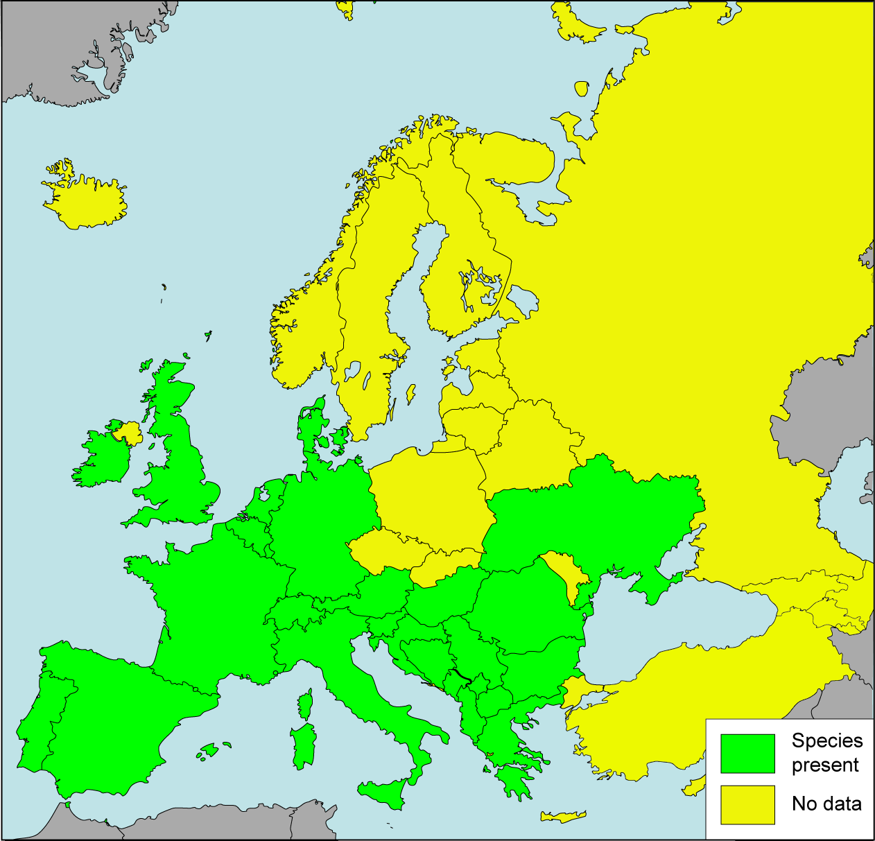 Pomatias elegans, land snail species: presence in European countries based upon data from: Fauna Europaea: Pomatias elegans